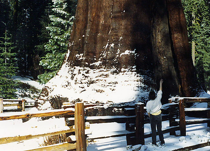 sequoia General Sherman, California, USA